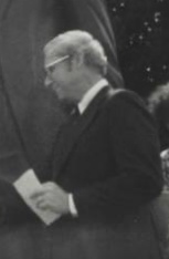 New Orleans mayor Moon Landrieu at Louis Armstrong Park, 1976.